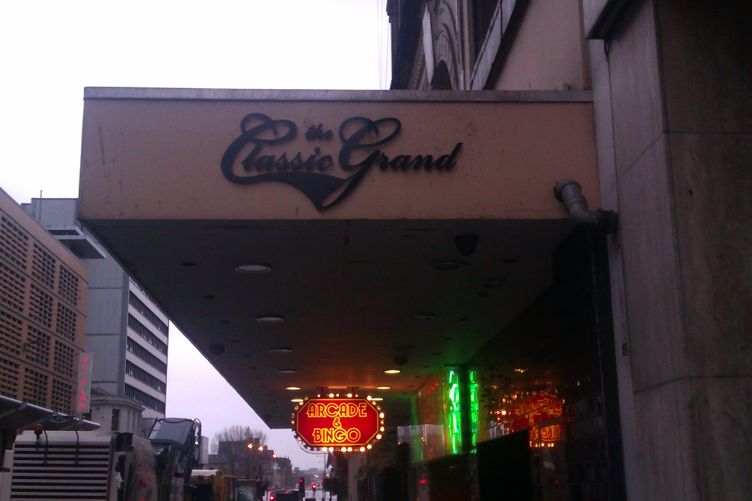 Outside of The Classic Grand Glasgow